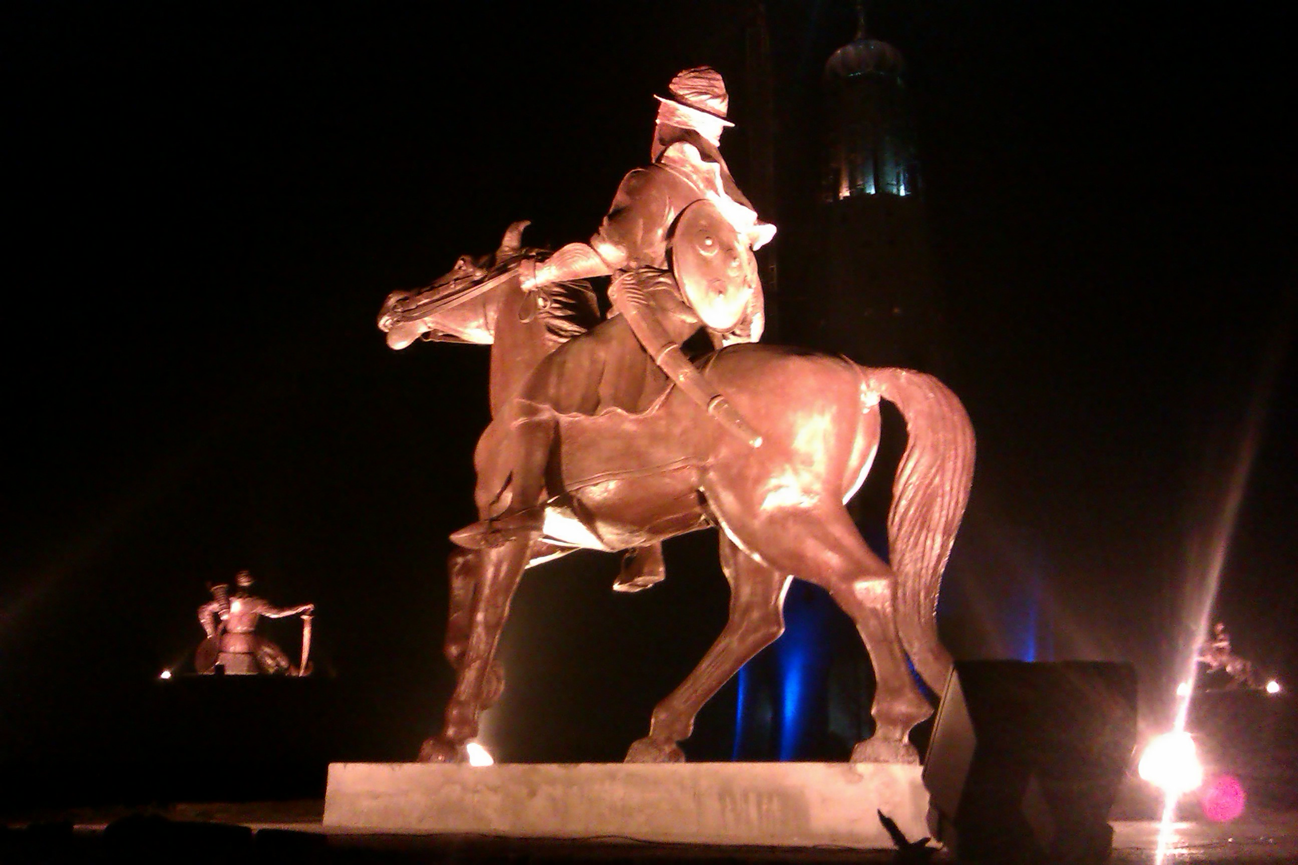 Baba Banda Singh Bahadur War Memorial in Mohali, Punjab